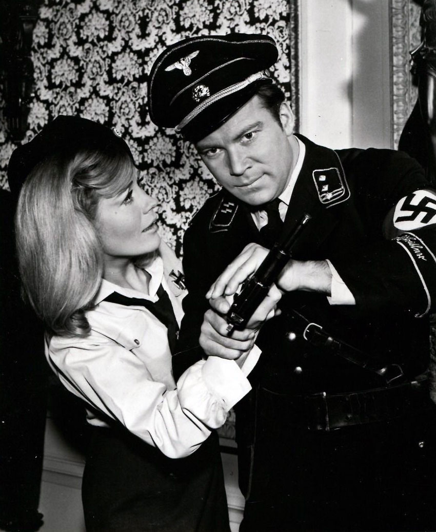 A promotional photo for the Star Trek: The Original Series episode "Patterns of Force".